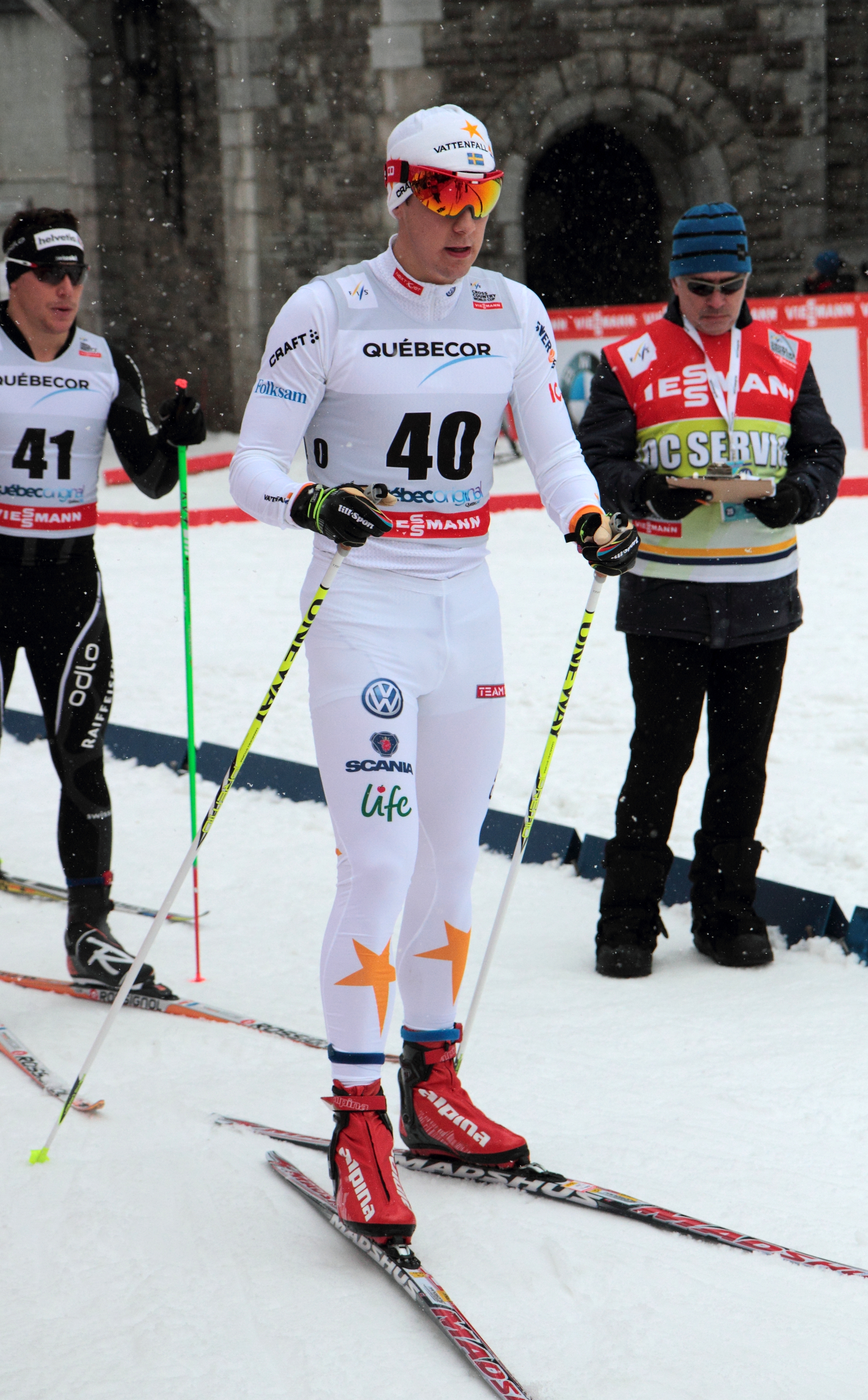 Anton Lindblad, FIS Cross-Country World Cup 2012, Quebec, Canada.